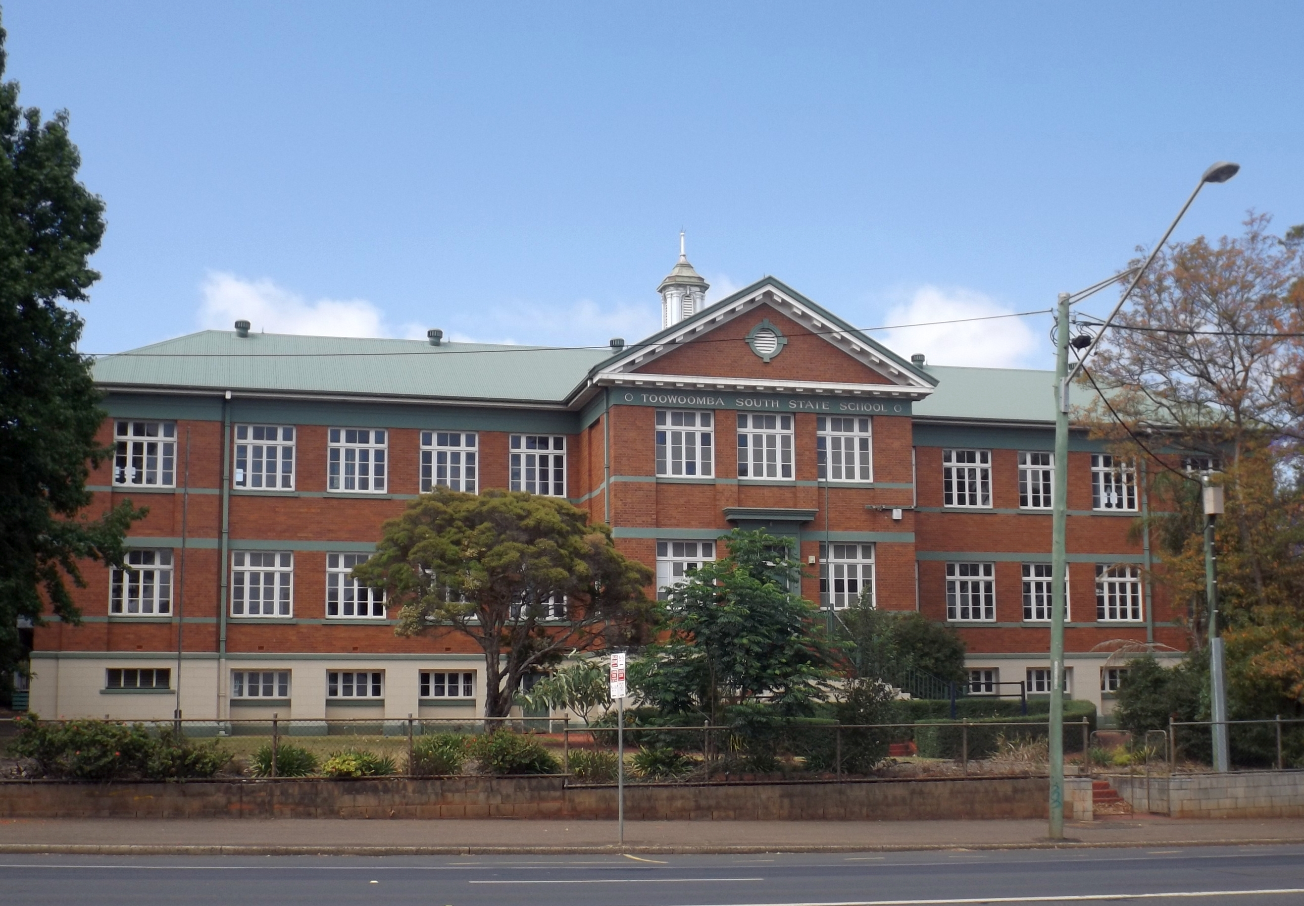 Photo of Toowoomba South State School in South Toowoomba, Queensland, Australia.